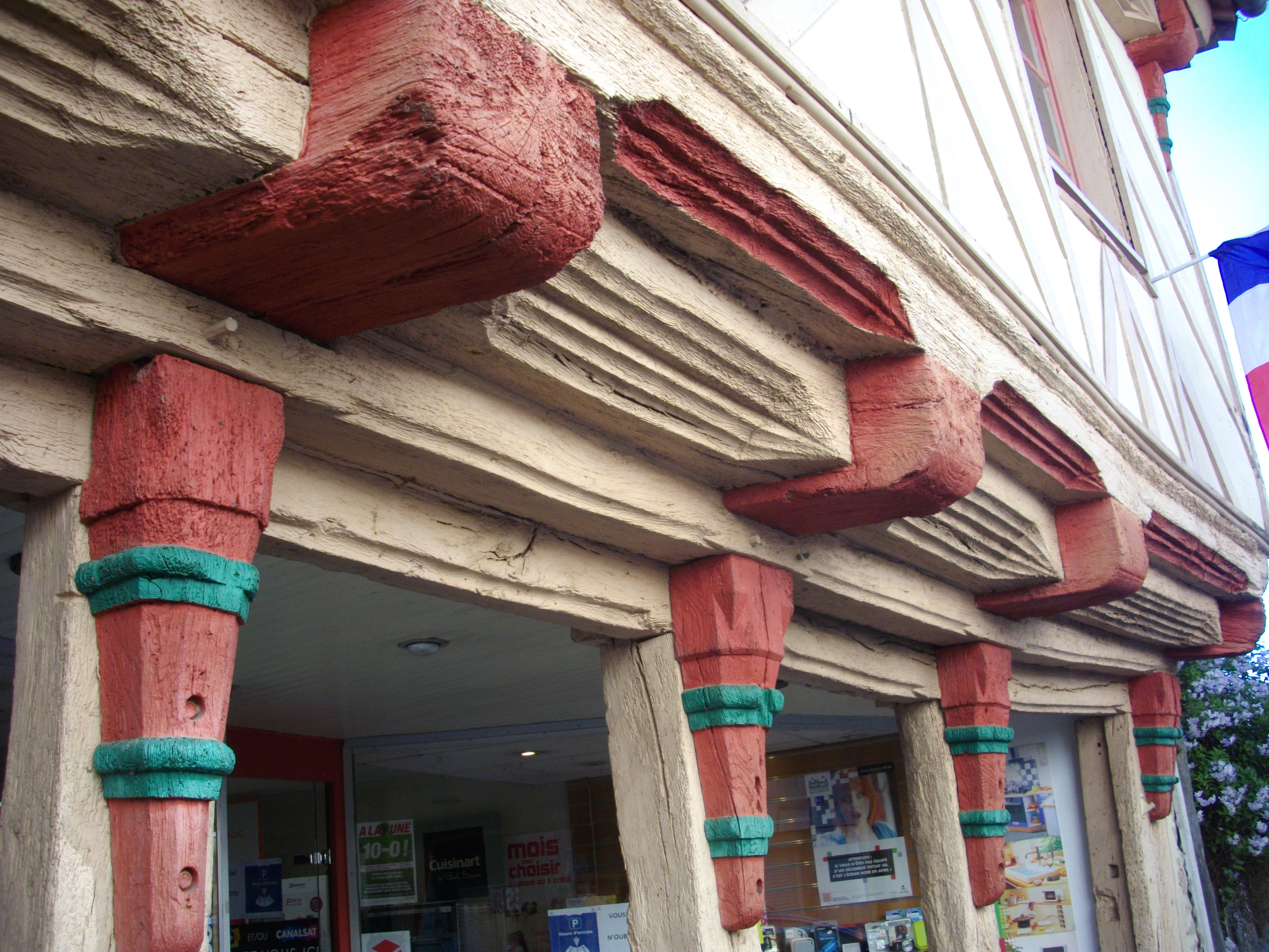 Le Moué house, 7 General de Gaulle street, in Malestroit (Morbihan, France), lintel .